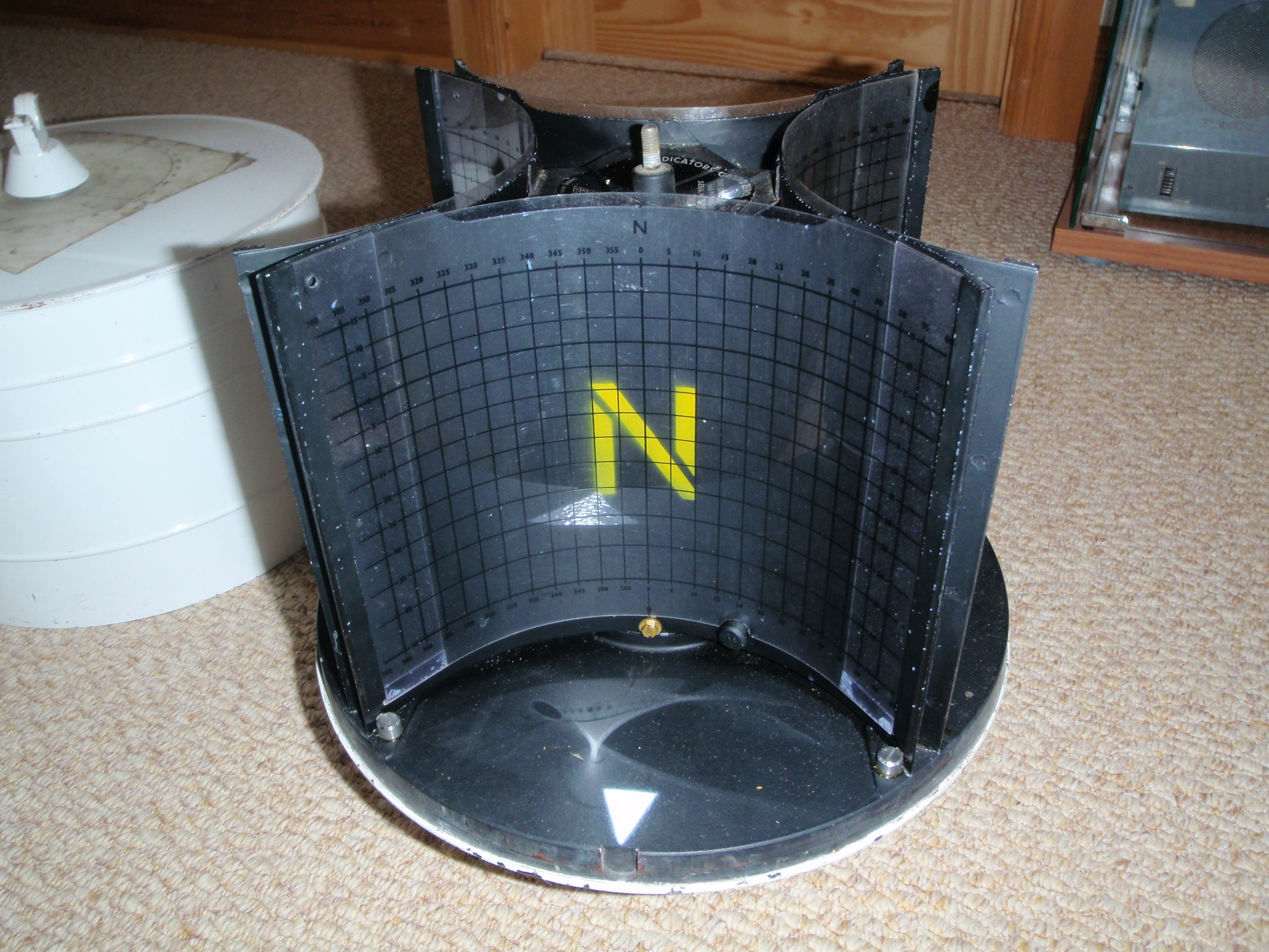 Picture showing the internals of the GZI.